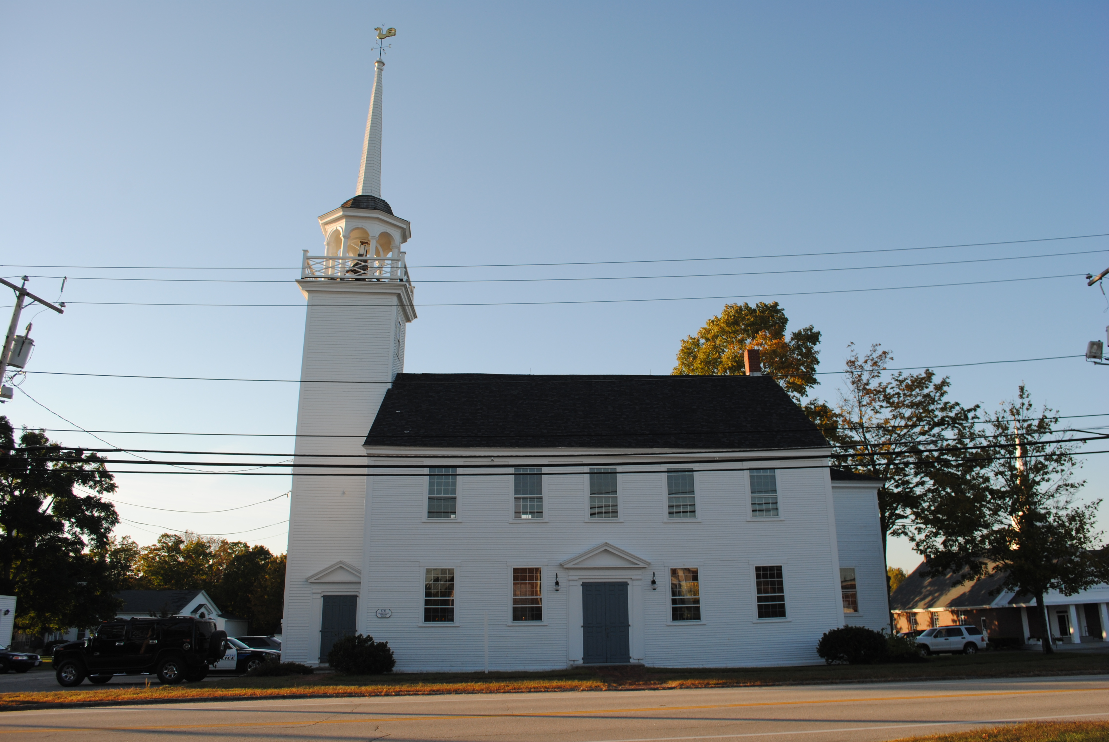 View of front of Hampstead Meeting House, facing Emerson Avenue.